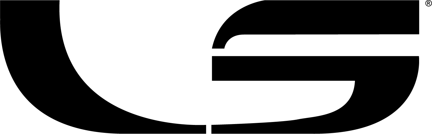 LS-Studios logo with transparency